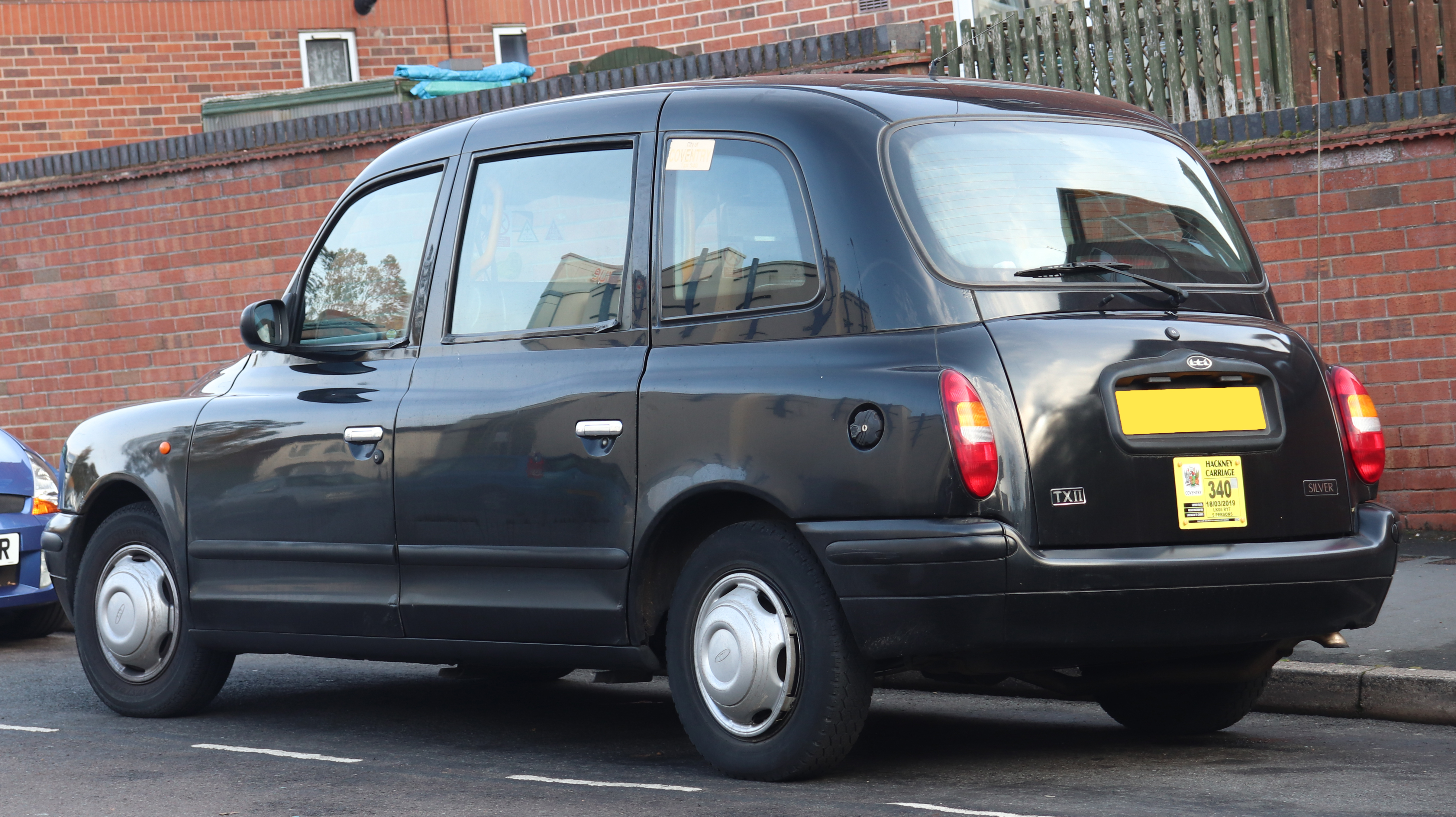 2005 LTI TXII Silver Automatic 2.4 Rear Taken in Leamington Spa